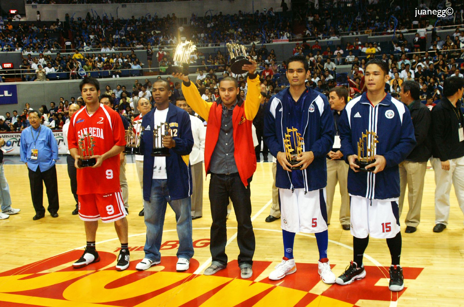 Yousif Aljamal - SBC, Marvin Hayes - JRU, Kevin de la Pena - MIT and League MVP, Bryan Faundo - CSJL, Dino Daa - CSJL